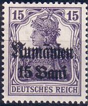 Stamp of Germany, WW1, overprint "Rumänien".